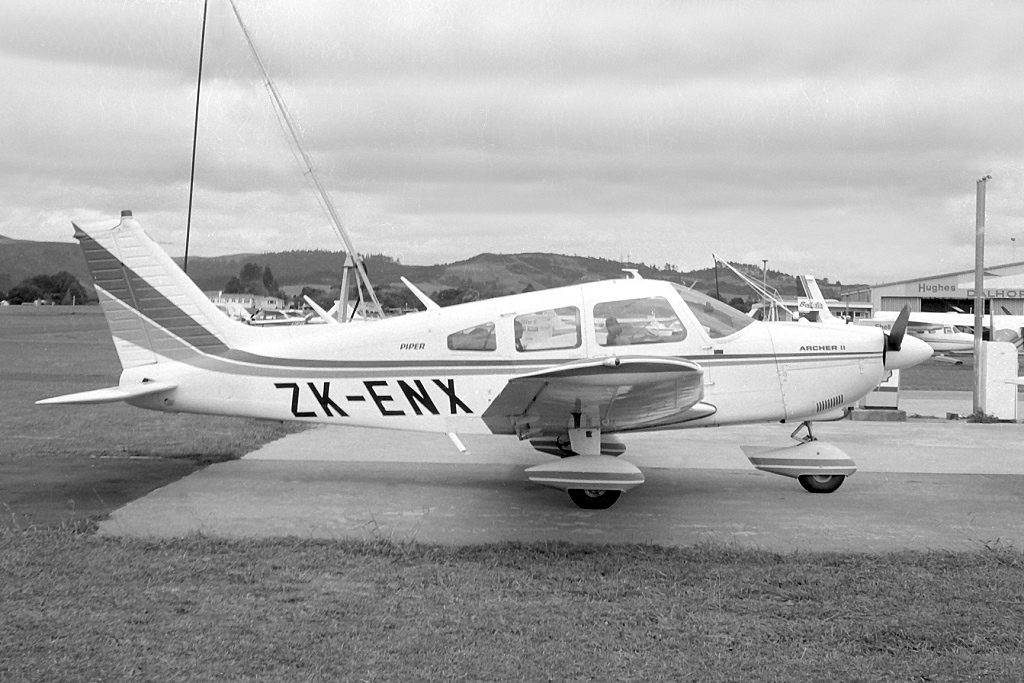 Piper PA28-181 Archer II ZK-ENX